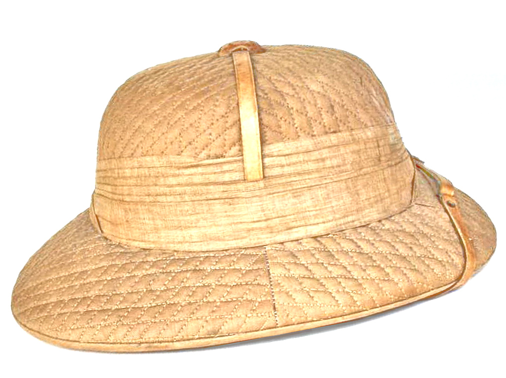 Aden Pattern Pith Helmet 1930's